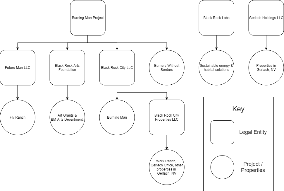 Organizational Structure of the various legal entities that constitute the Burning Man Project